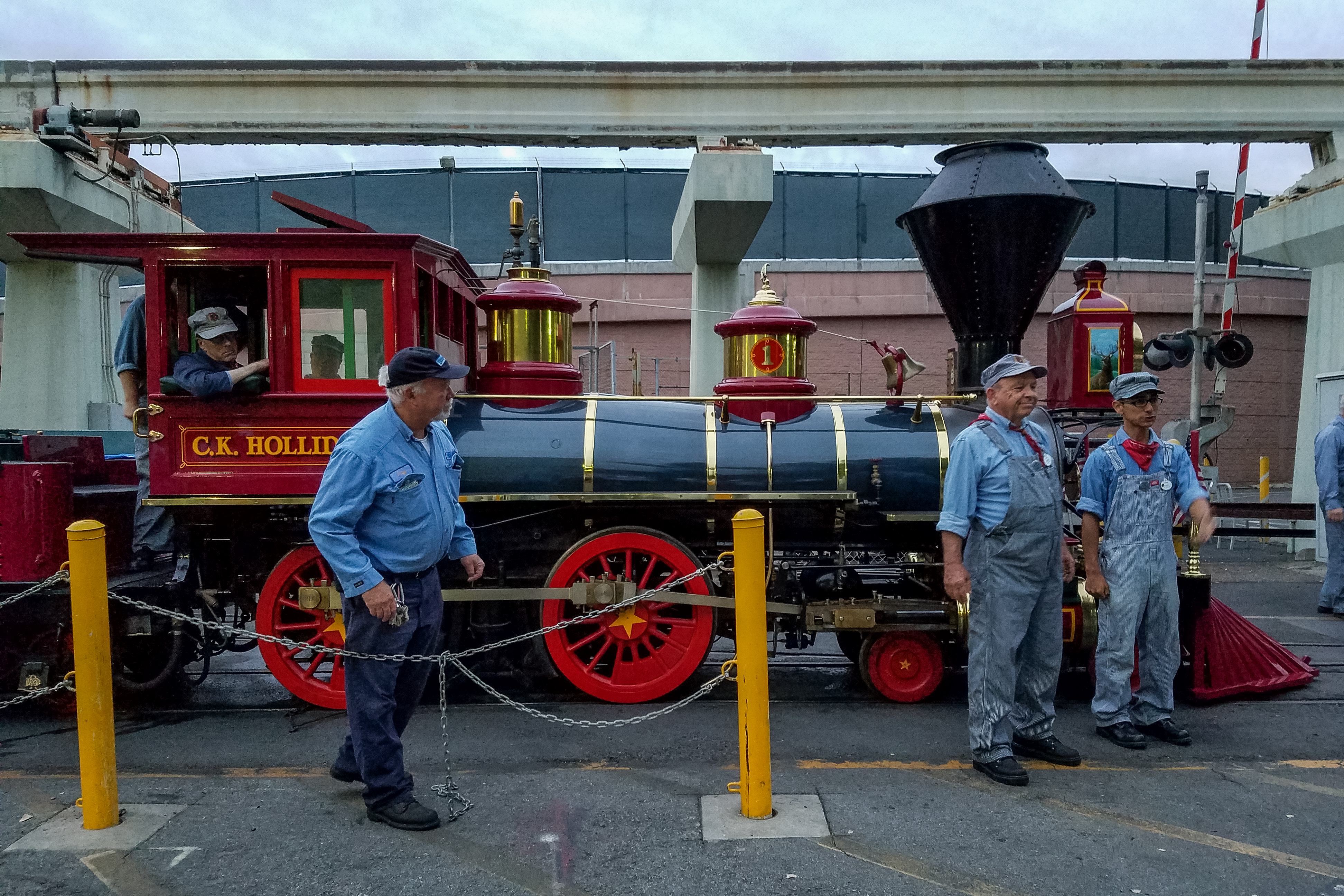 The C.K. Holliday and some of the train engineers backstage at Disneyland during the 2016 CHOC Walk.